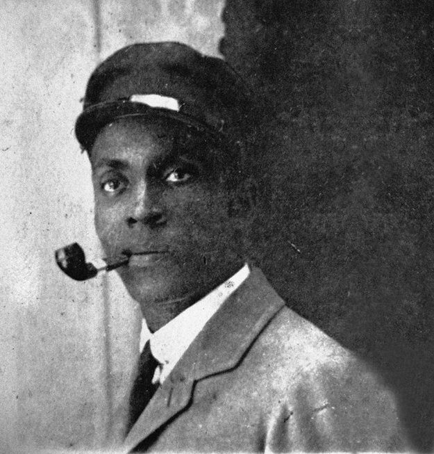 Frederick Bruce Thomas, c. 1896, Paris (National Archives, NARA II)